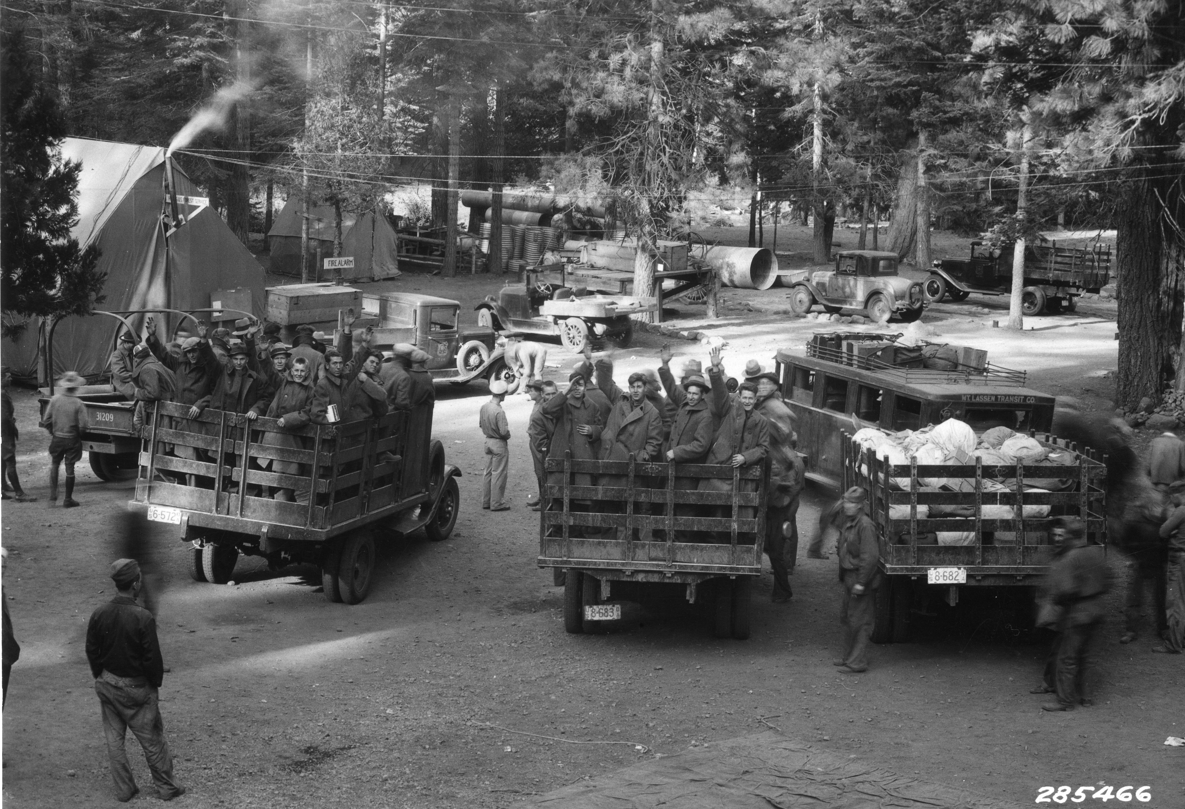 CCC boys leaving camp for home, Lassen National Forest, California. Description/Notes: USFS photo #285466 Original Collection: Gerald W. Williams Collection Item Number: WilliamsG: CCC leaving camp You can find this image by searching for the item number by clicking here. Want more? You can find more digital resources online. We're happy for you to share this digital image within the spirit of The Commons; however, certain restrictions on high quality reproductions of the original physical version may apply. To read more about what “no known restrictions” means, please visit the Special Collections & Archives website, or contact staff at the OSU Special Collections & Archives Research Center for details.